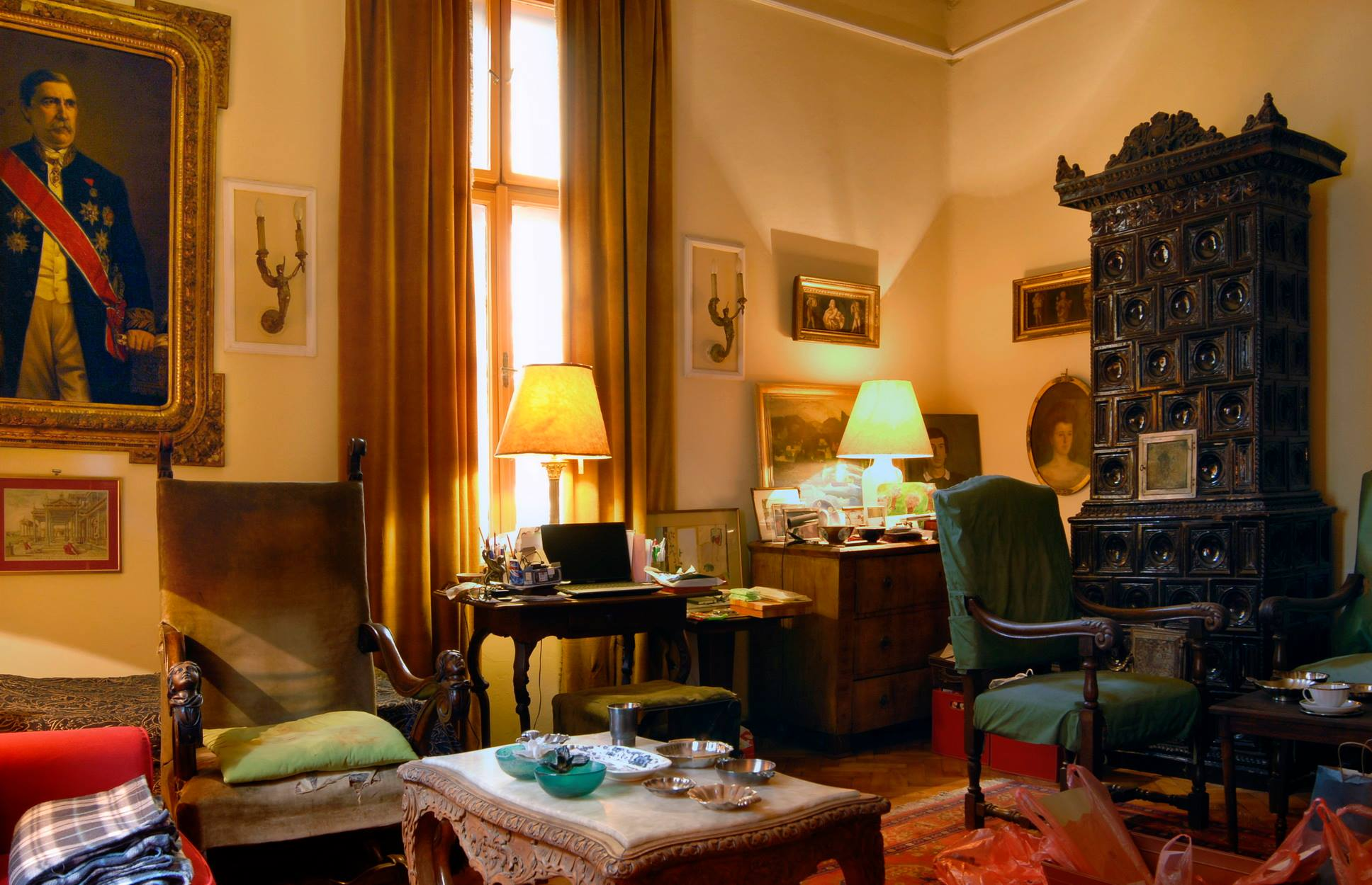 Unutrasnjost Doma Jevrema Grujica